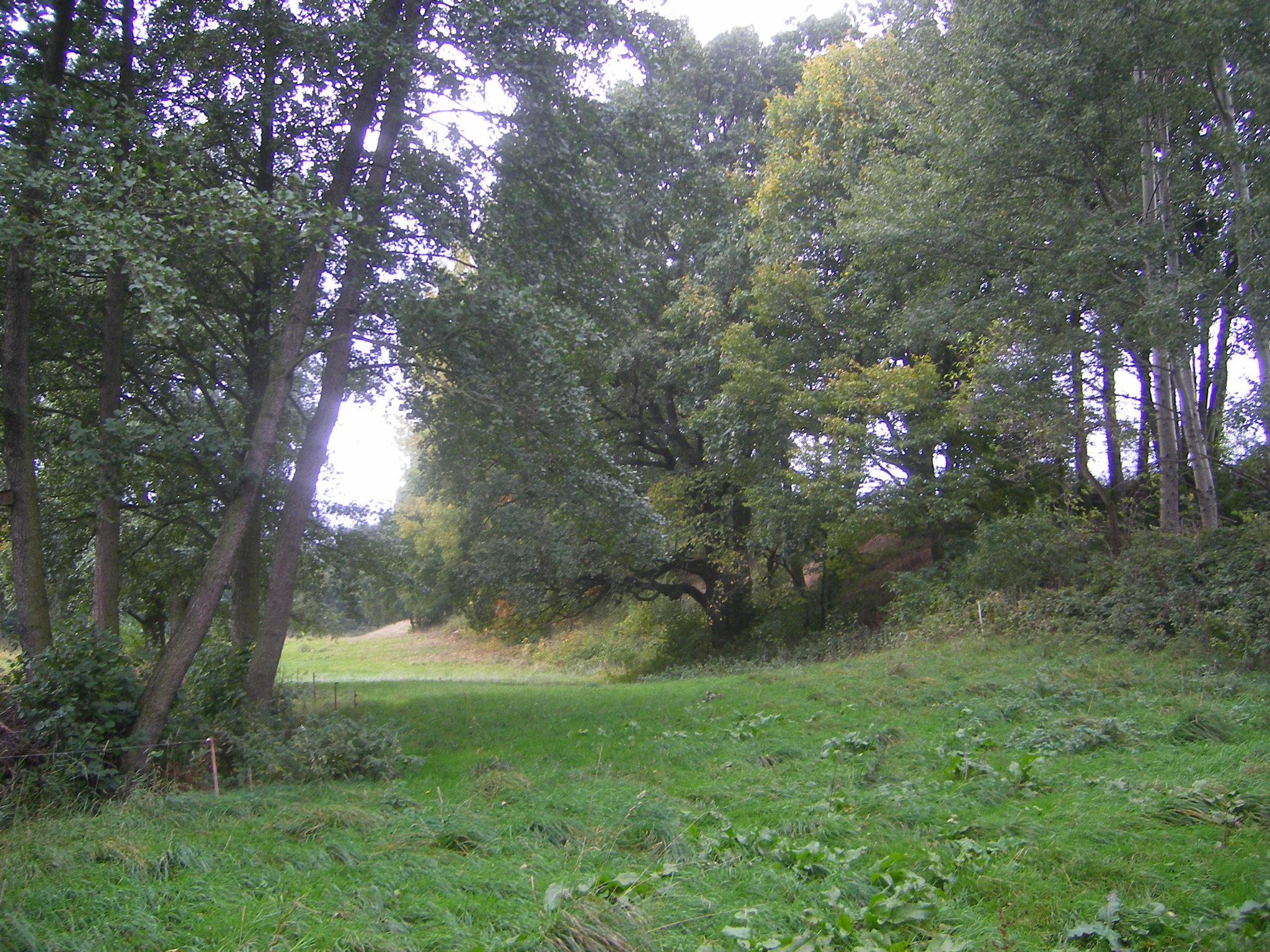 Meadow and forest, called Zenke in Zschöpel, a district of Ponitz near Altenburg/Thuringia (Germany)